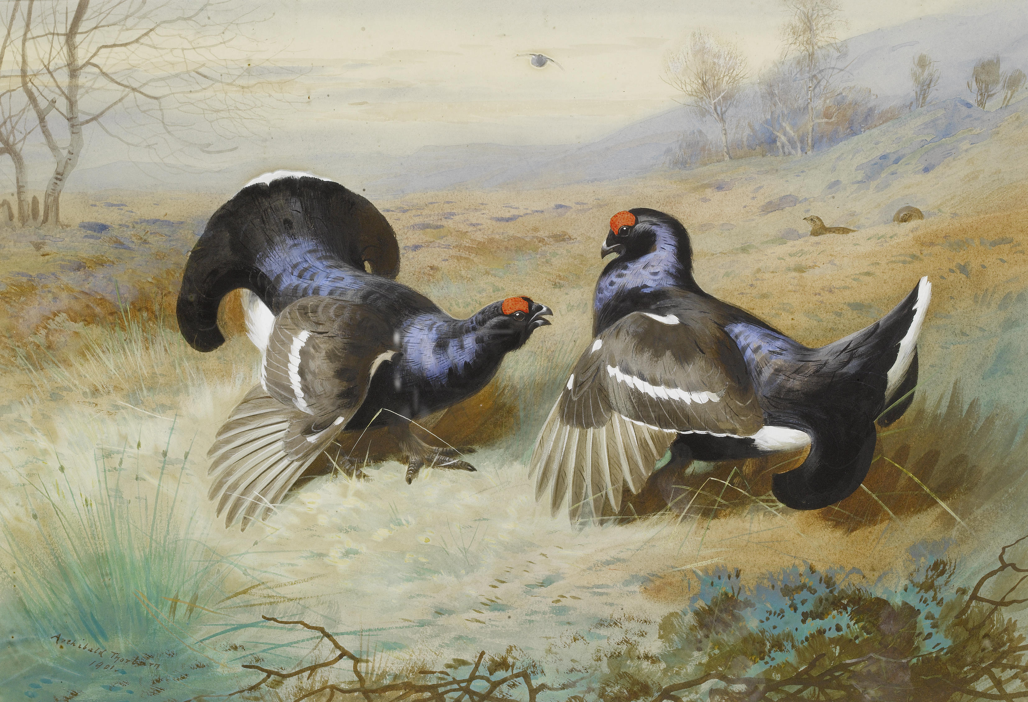 Blackcocks at the Lek. Signed and dated Archibald Thorburn/1901.. Watercolour and bodycolour, 36.5 x 53.5 cm